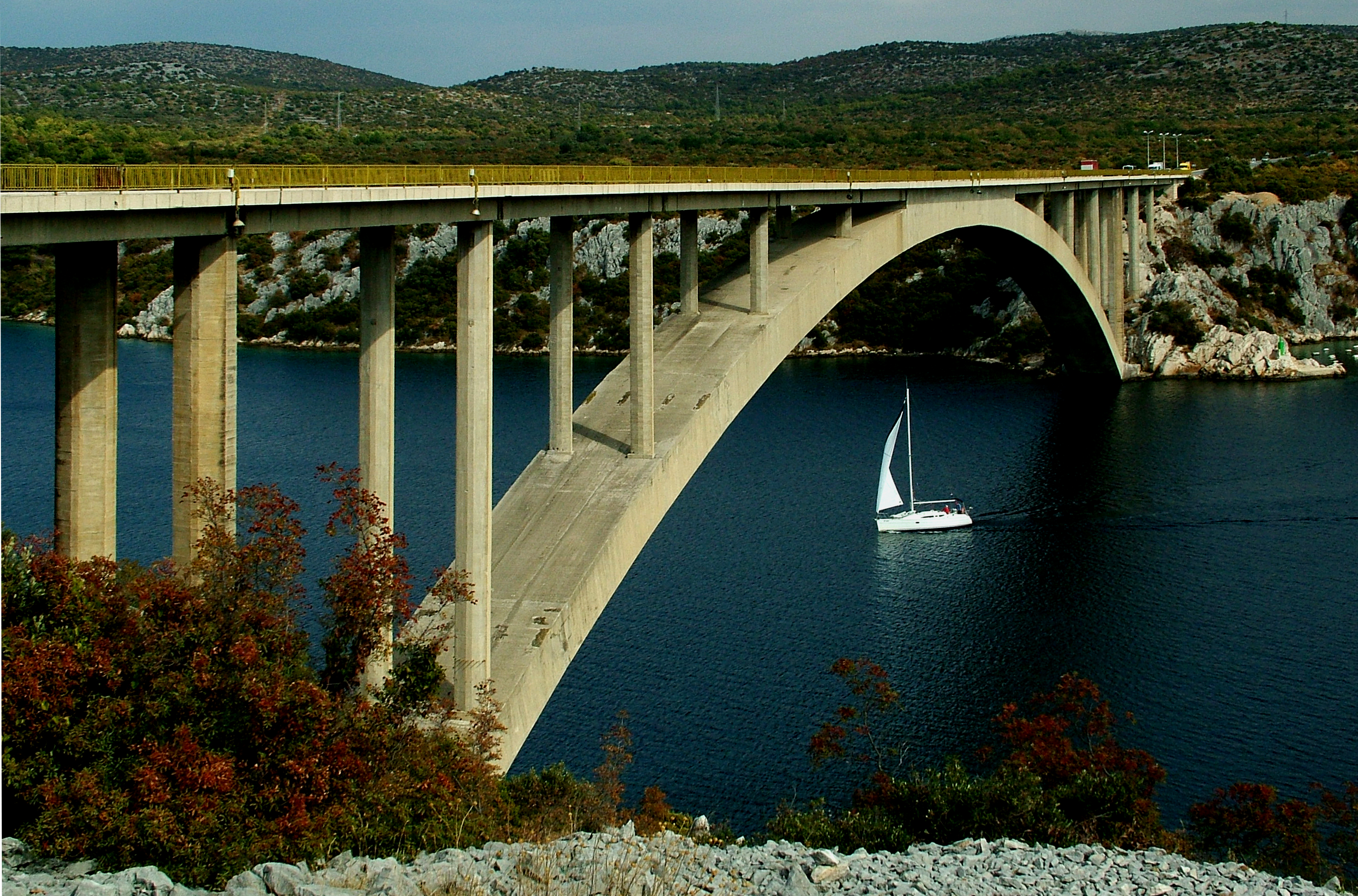 Šibenik Most